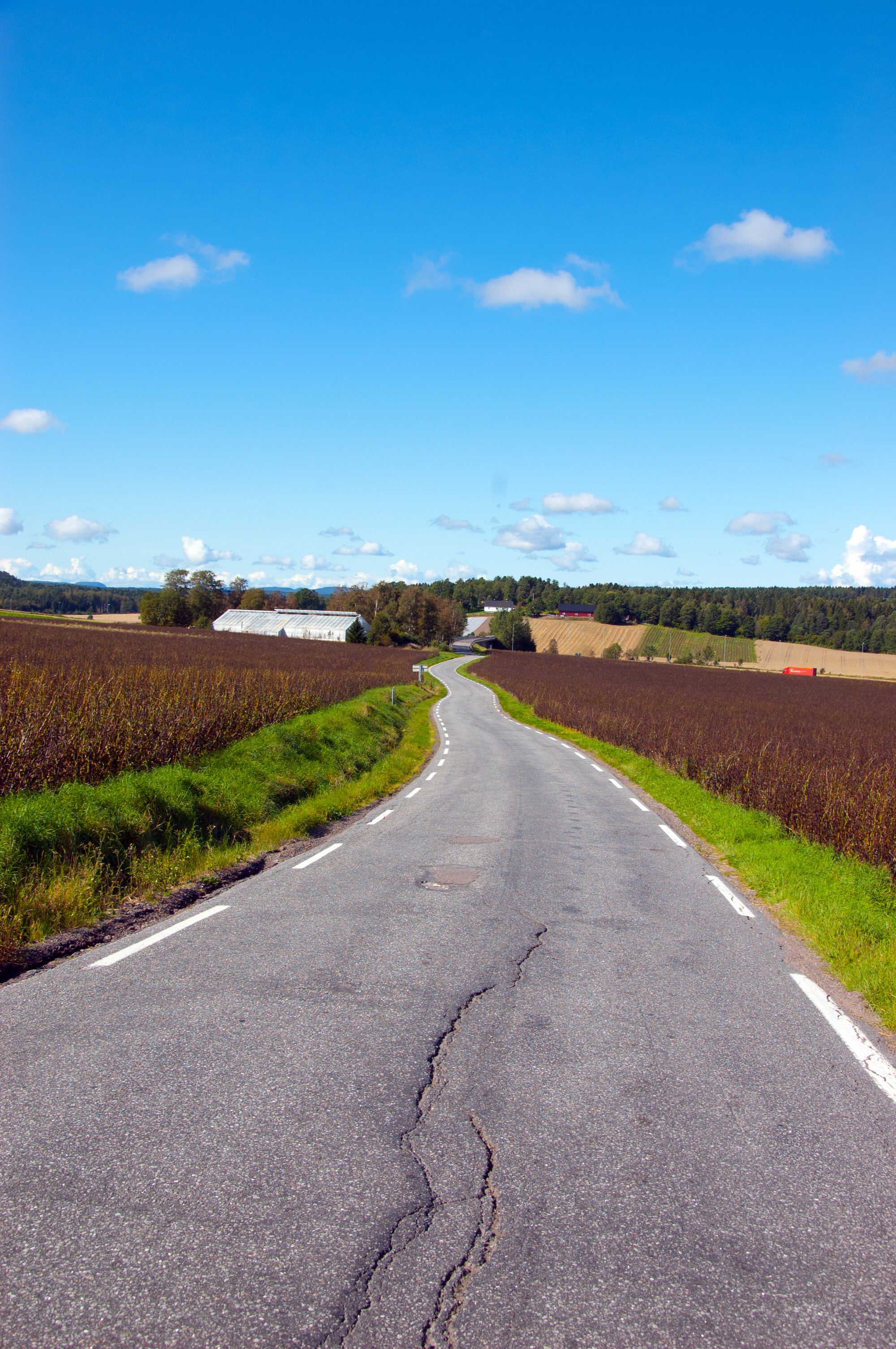 County road 290 "Gjennestadveien" in Stokke, Vestfold, Norway.